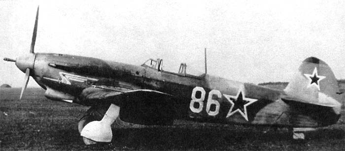 Yakovlev Yak-9K, cannon-armed Soviet fighter